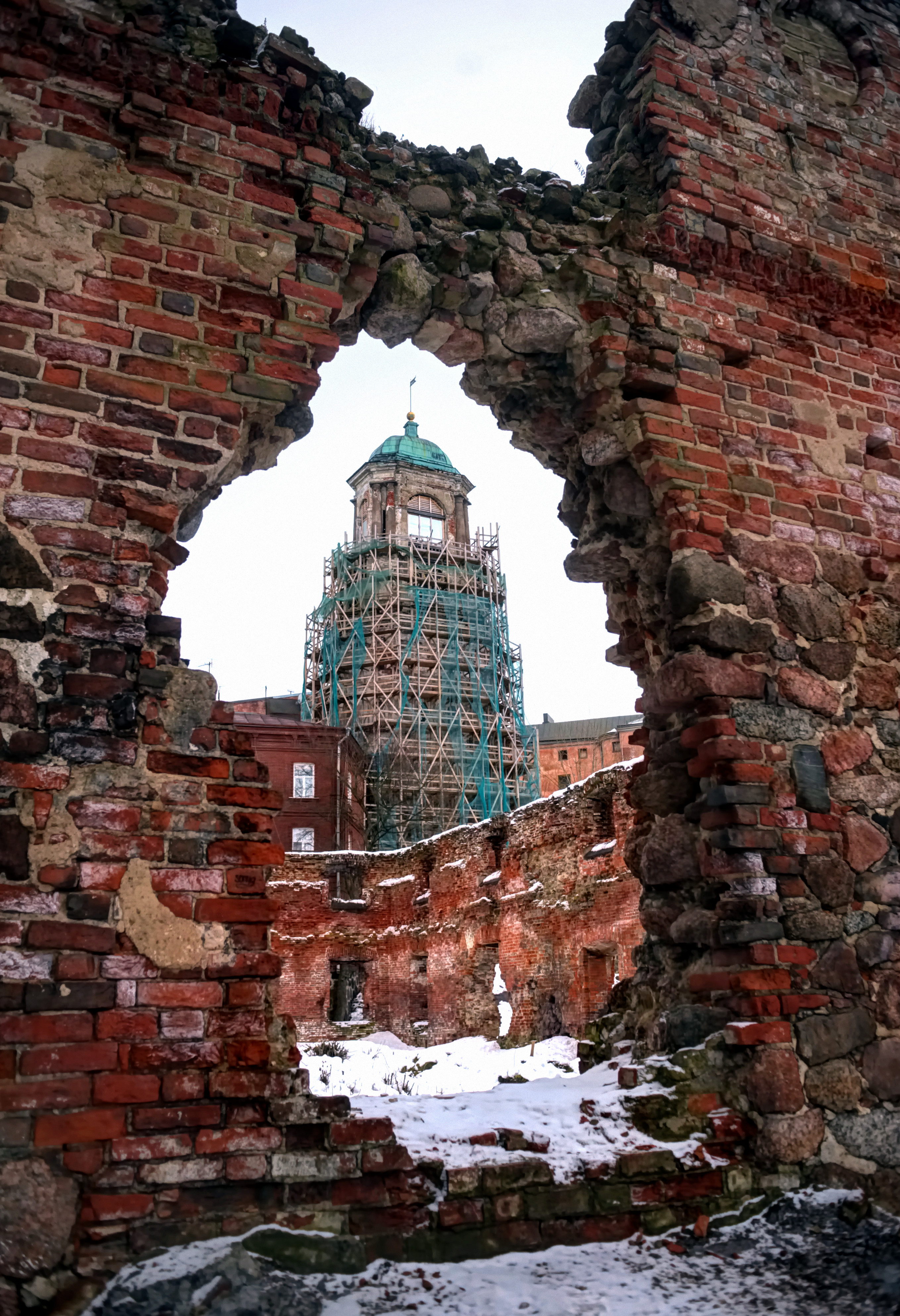 Vyborg Clock Tower of the old cathedral